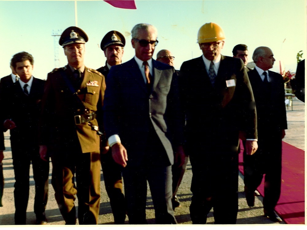 Site visit to ZobAhan